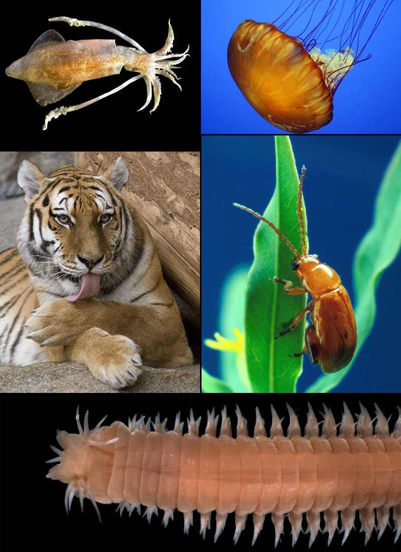 Composite image of various animals: Loligo vulgaris (Mollusca), Chrysaora quinquecirrha (Scyphozoa), Panthera tigris (Chordata), Aphthona flava (Arthropoda), Eunereis longissima (Annelida).